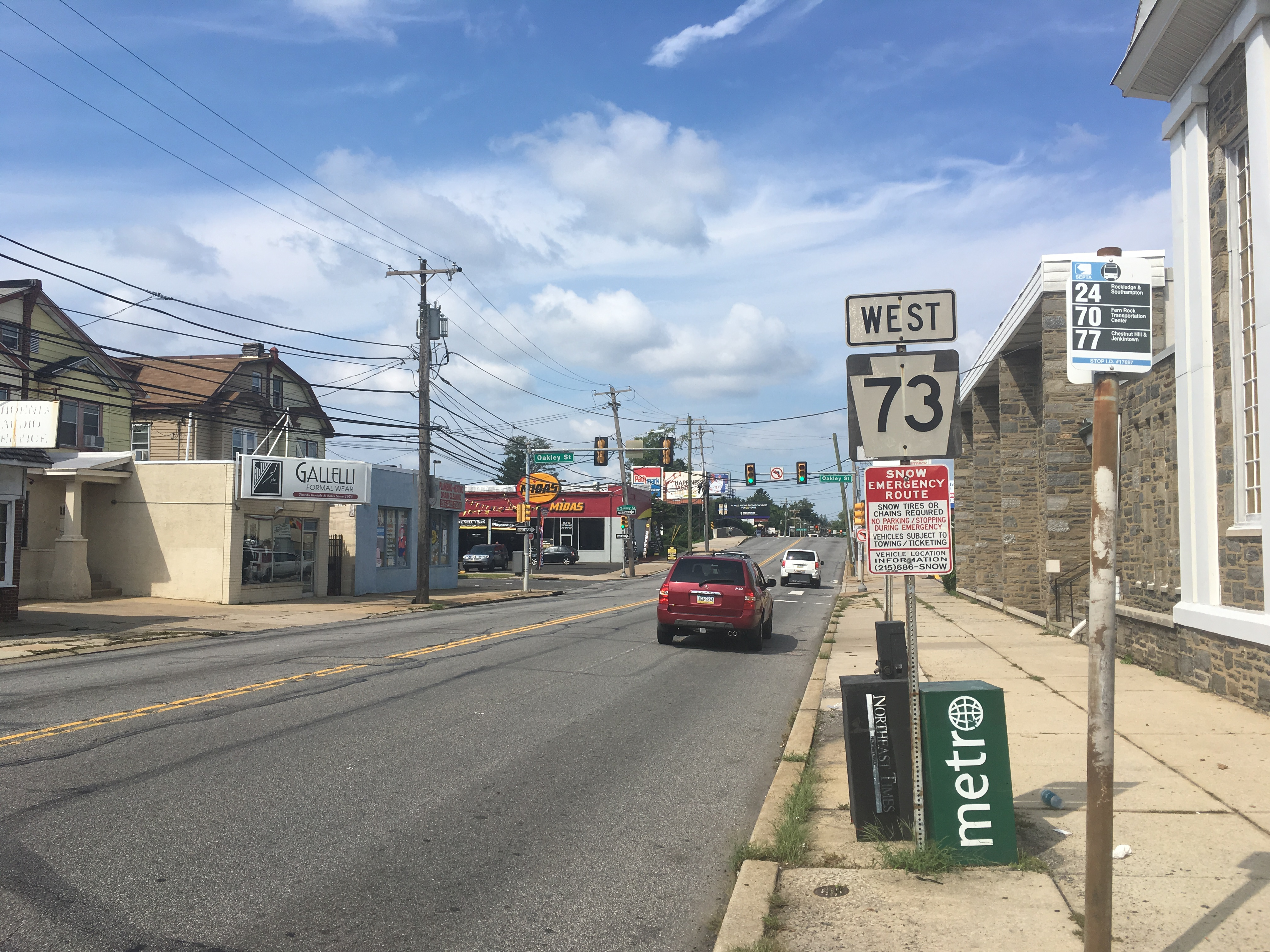 Westbound Pennsylvania Route 73 (Cottman Avenue) past the intersection with Pennsylvania Route 232 (Oxford Avenue) in Philadelphia, Pennsylvania